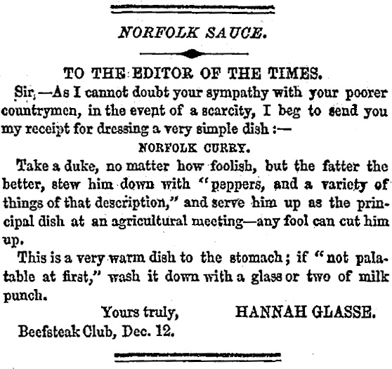 Letter with the signature Hannah Glasse printed in and scanned from The Times, 12 December 1845, p. 6. This letter was apparently composed pseudonymously by a wag at the Beefsteak Club, and was sent nearly 100 years after Glasse's popular Art of Cookery was published.